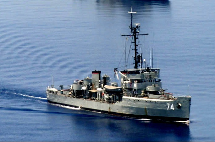 050822-N-6264C-145 Sulu Sea (Aug. 22, 2005) – A combined U.S. Navy and Philippine Navy task group underway during the at-sea phase of exercise Cooperation Afloat Readiness and Training (CARAT) in the Philippines. CARAT is an annual series of bilateral military training exercises with several Southeast Asian nations designed to enhance the interoperability of the respective sea services. U.S. Navy photo by Aviation Structural Mechanic 1st Class William Contreras (RELEASED) - photo zoomed on BRP Rizal (PS-74)